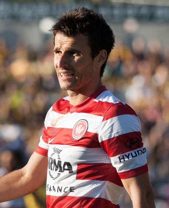 Labi Haliti in Wanderers away strip